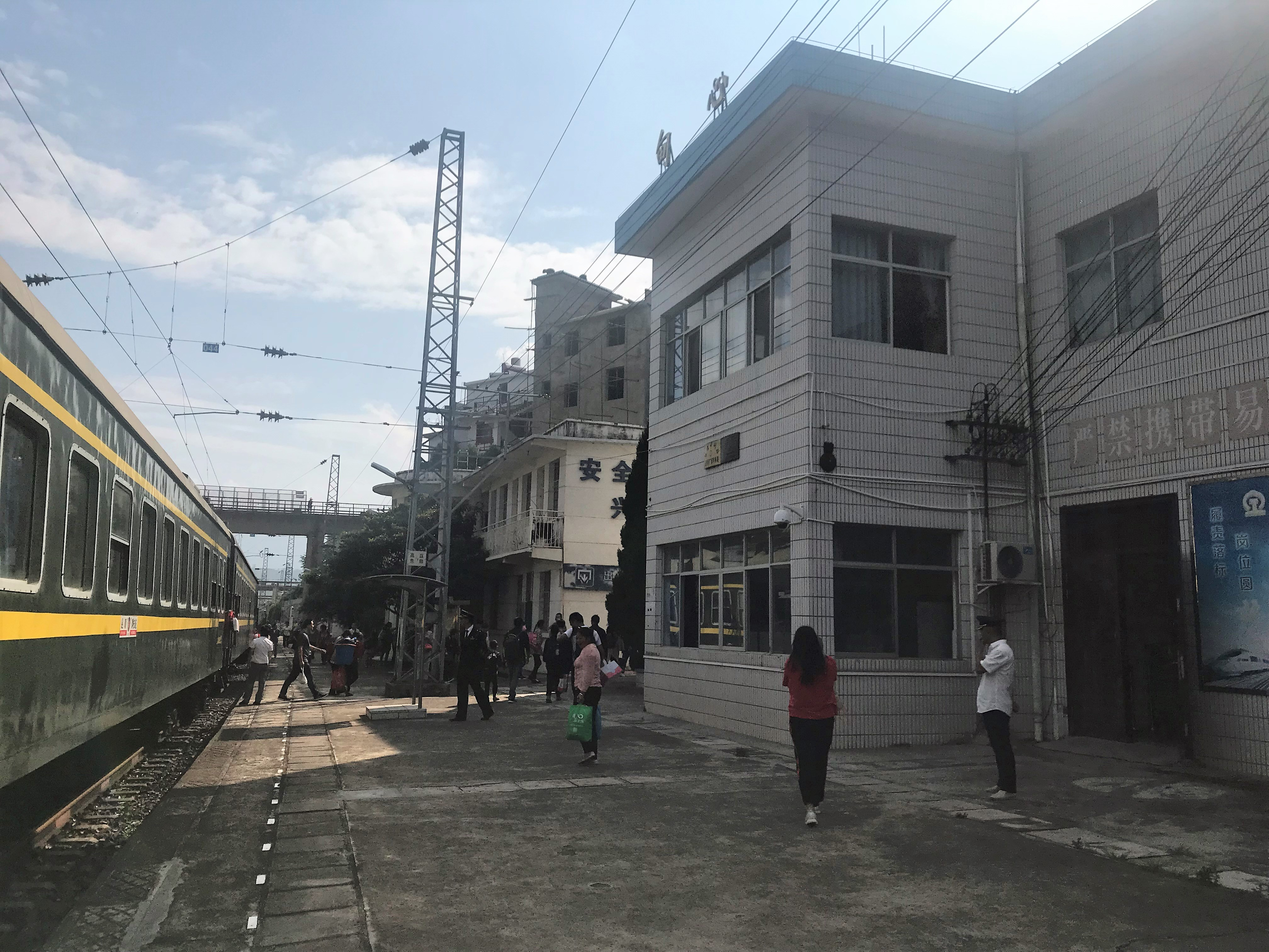 201908 Station Building of Dianxin (1)